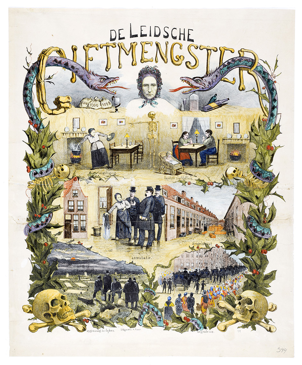 Poster De Leidsche Giftmengster, Dutch serial killer Maria Swanenburg ( "Goeie Mie")